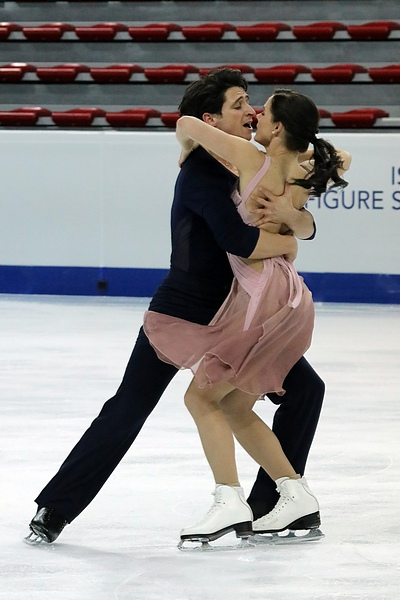 Tessa Virtue and Scott Moir at the 2016 Grand Prix Final